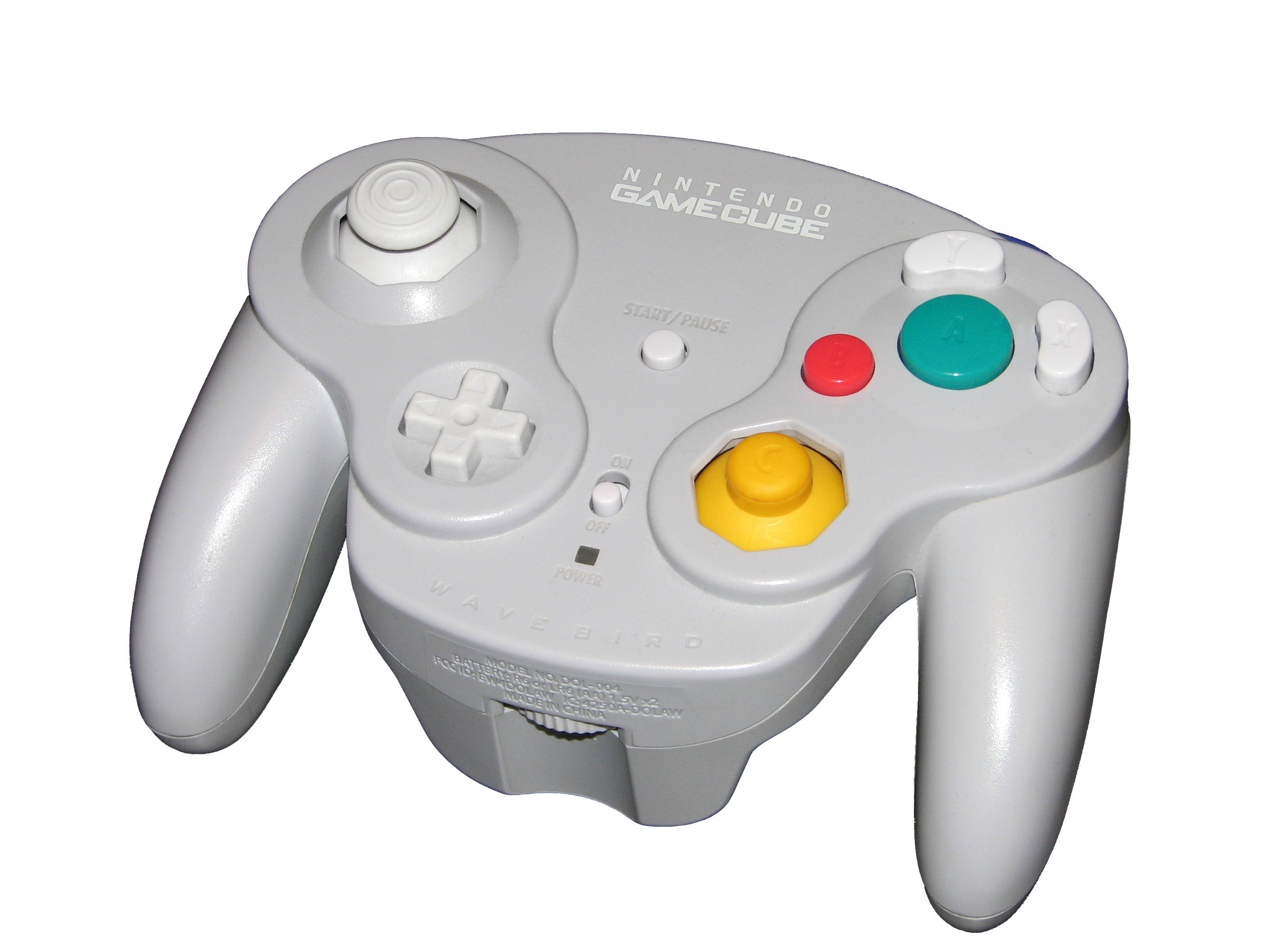 Self-taken image. Took it on a black background, photoshopped to white, so it looks a little odd on the top.